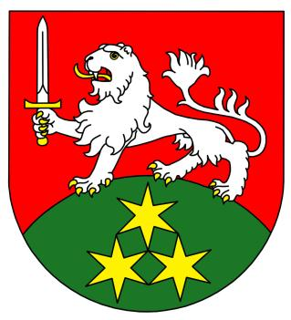 Coat of arms of the municipality Chlumec (Ústí nad Labem District), approved by the local authority 2011-09-07